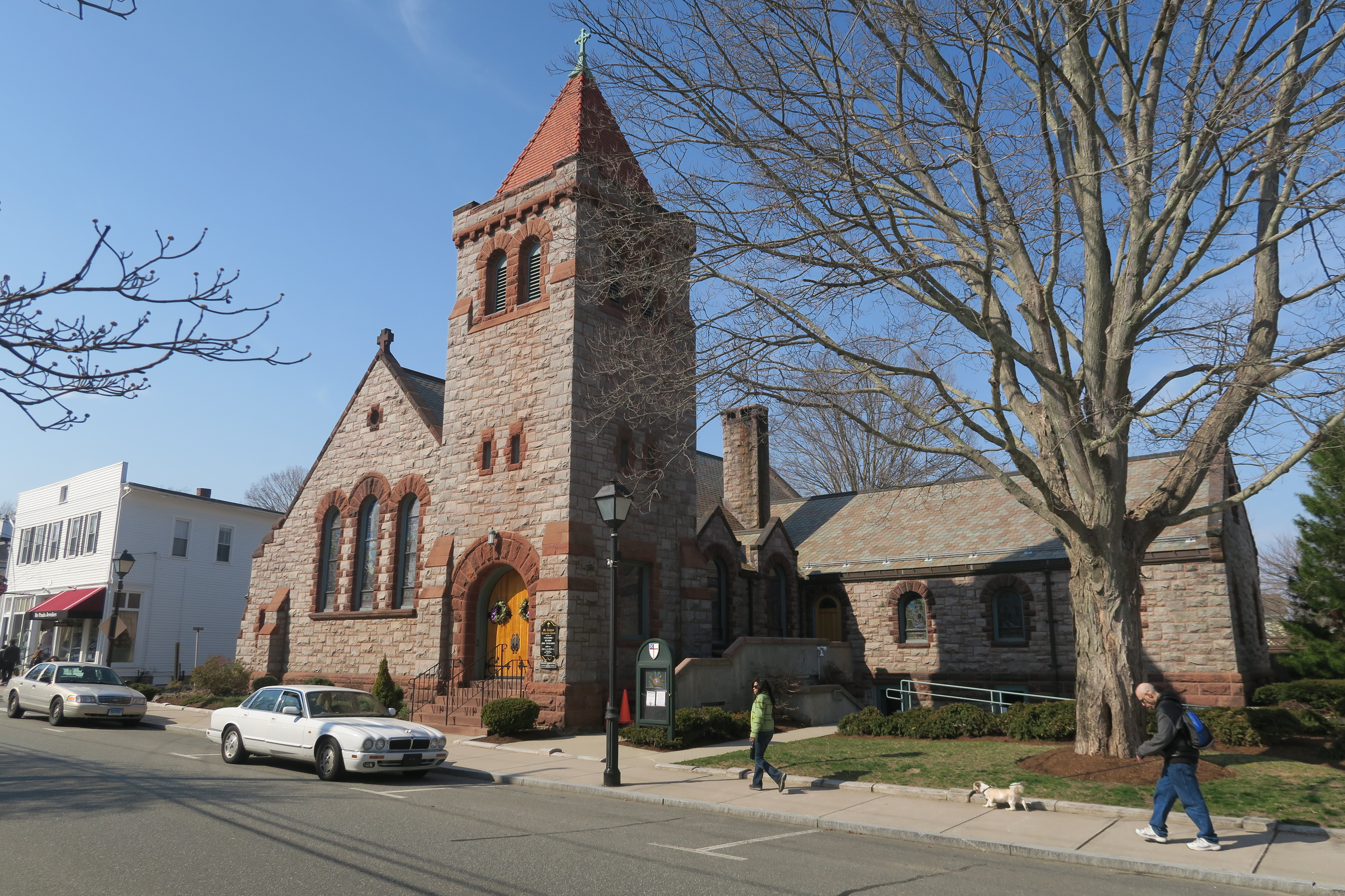 St Johns Episcopal Church, Essex Connecticut